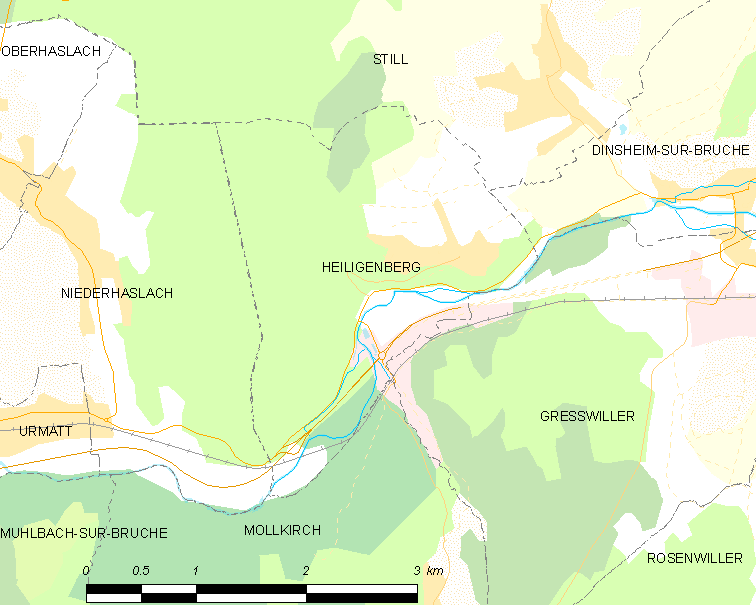 Map of French municipality